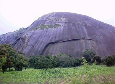 A volcanic plug mountain, in the town of Boundiali, Savanes Region, northern Côte d'Ivoire.